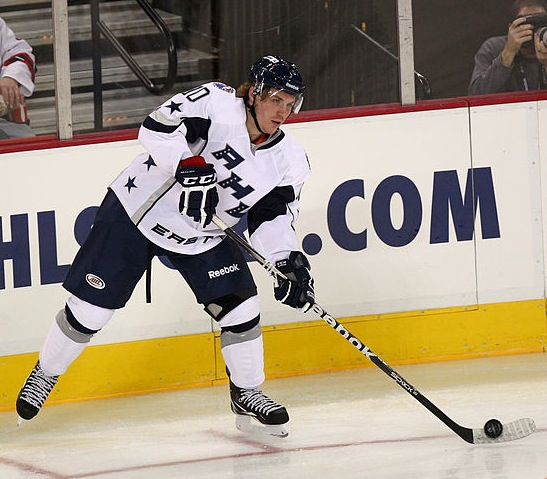 PhotoGraphics Photography/AHL The American Hockey League (AHL) AHL All-Star Game - 2nd Period Boardwalk Hall - Atlantic City, NJ Taken on January 30, 2013 using a Canon EOS-1D Mark IV.